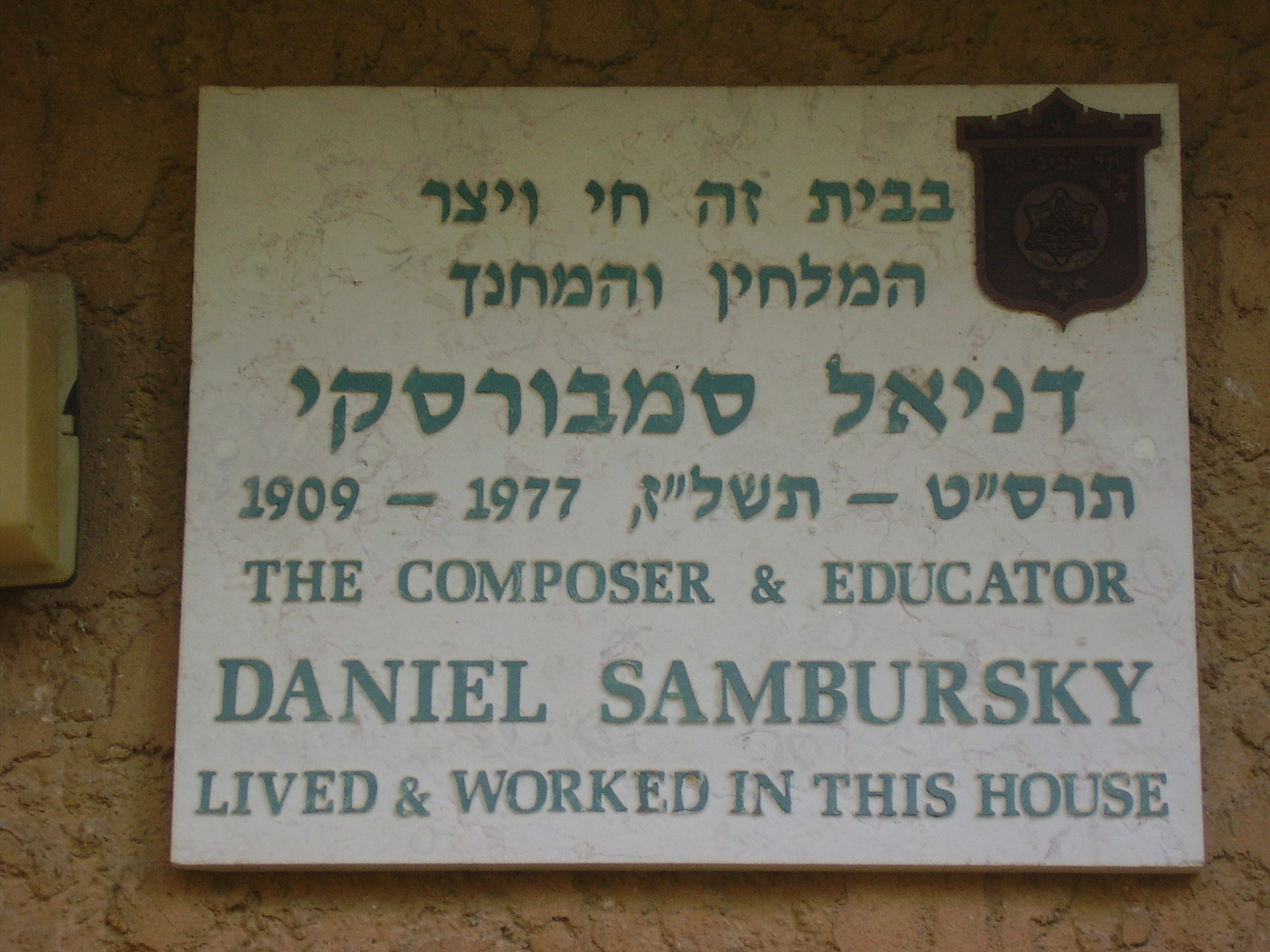 memorial plaque to the composer daniel sambursky in tel aviv לוחית זיכרון למלחין דניאל סמבורסקי ברח' הברון הירש 13א בתל אביב